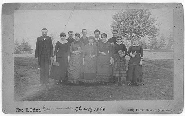 Handwritten on mount: Grammar Class of 1883 . Printed on mount: Theo. E. Peiser, 613 1/2 Front Street, (up-stairs) . Peiser 181a